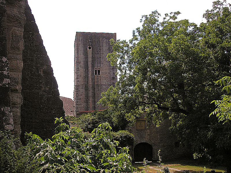 Salzburg castle near Bad Neustadt (Landkreis Rhön-Grabfeld, Lower Franconia, Germany). The southern keep